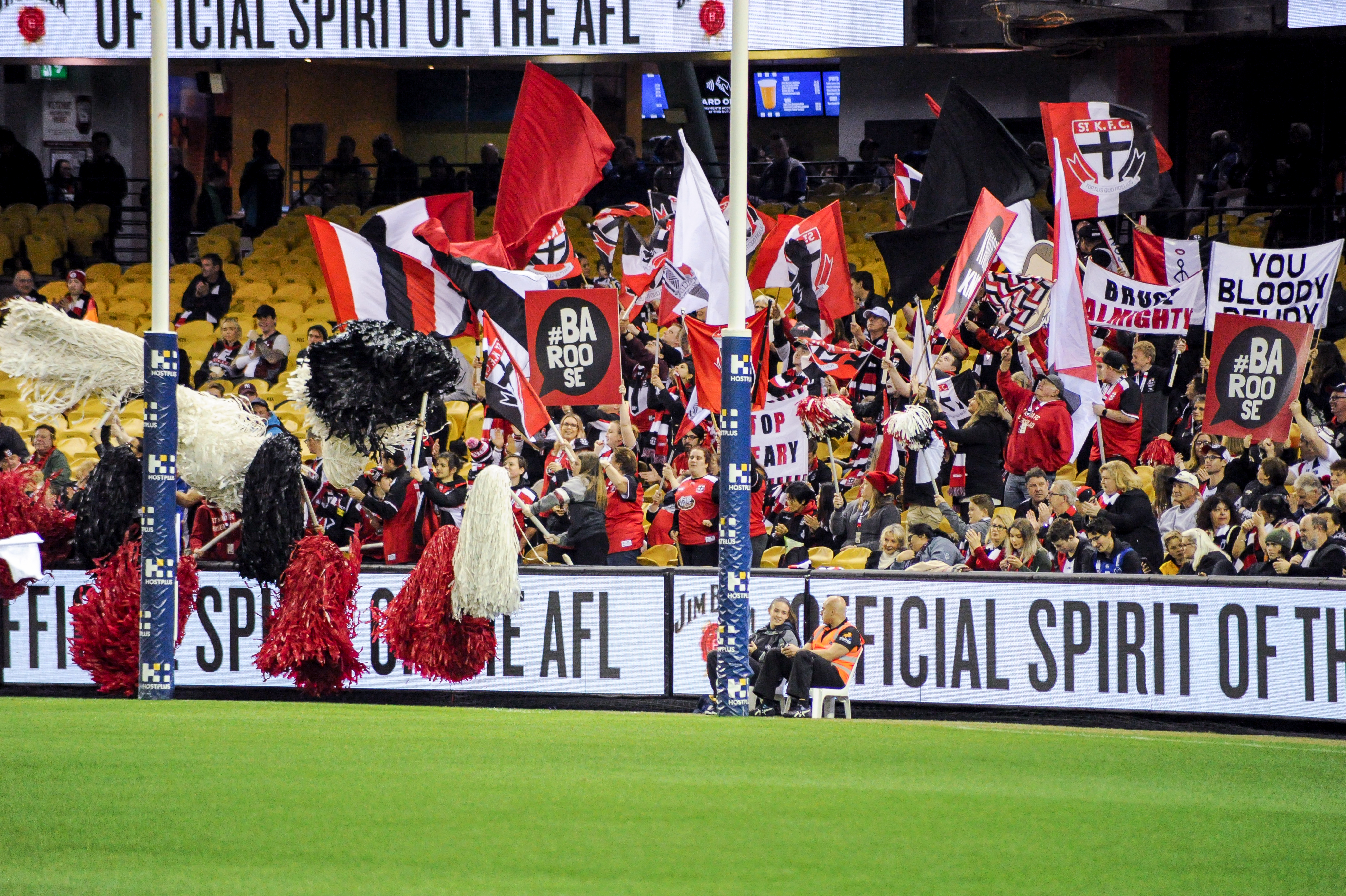 St Kilda cheer squad during the AFL round thirteen match between North Melbourne and St Kilda on 16 June 2017 at Etihad Stadium in Melbourne, Victoria.